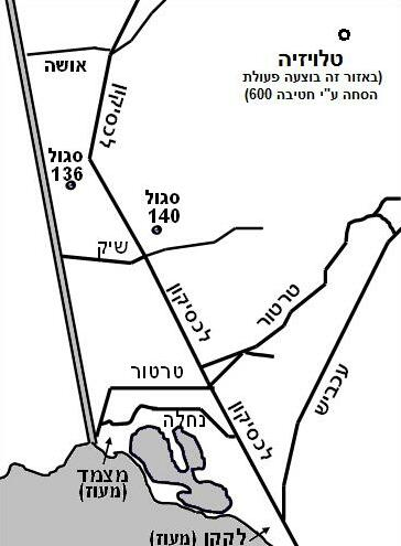 General Painting brigade combat zone 14 on the night of 15/10/73 (the "Chinese Farm")